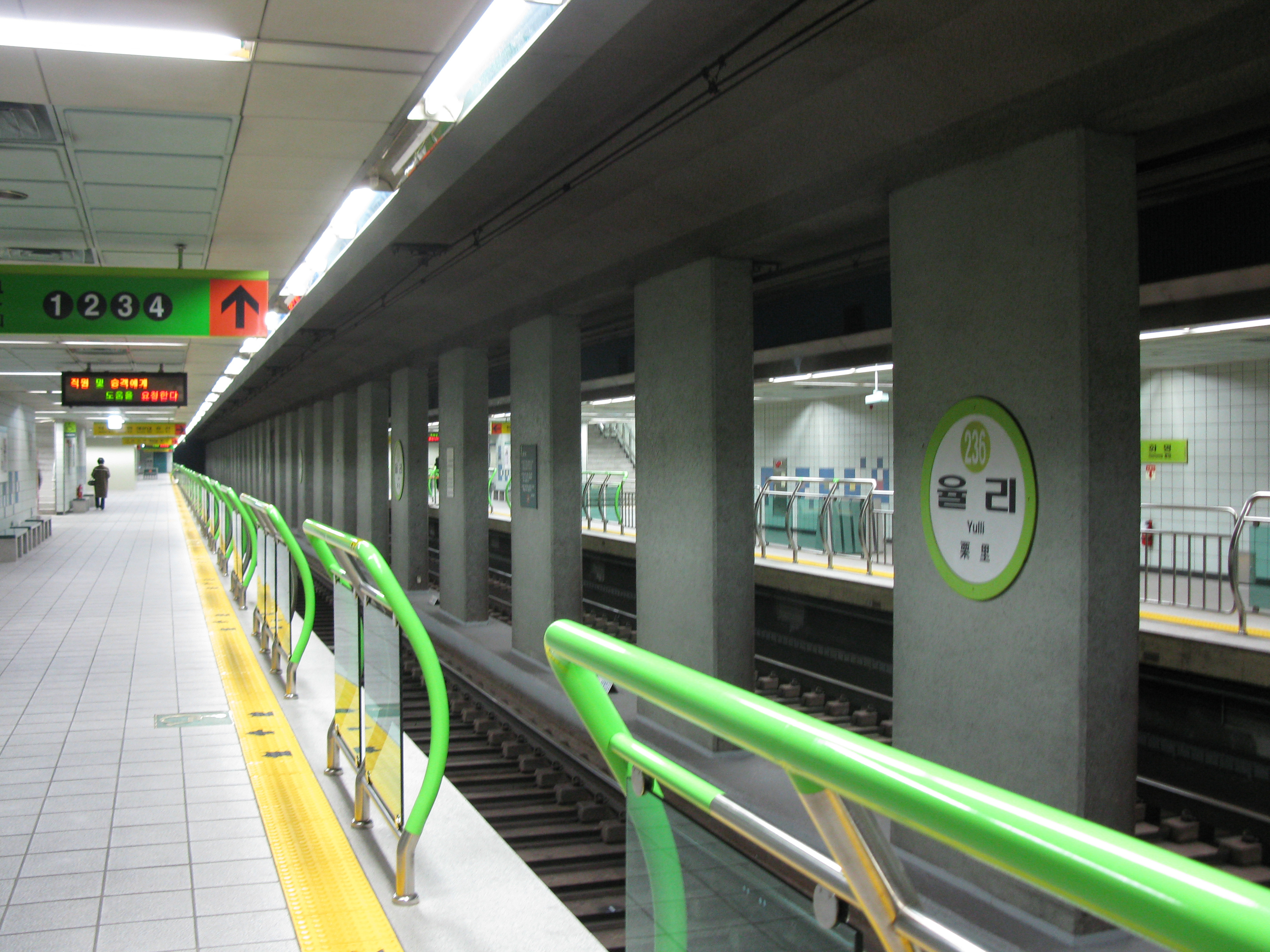 Yulli Station platform (Busan Subway Line 2)